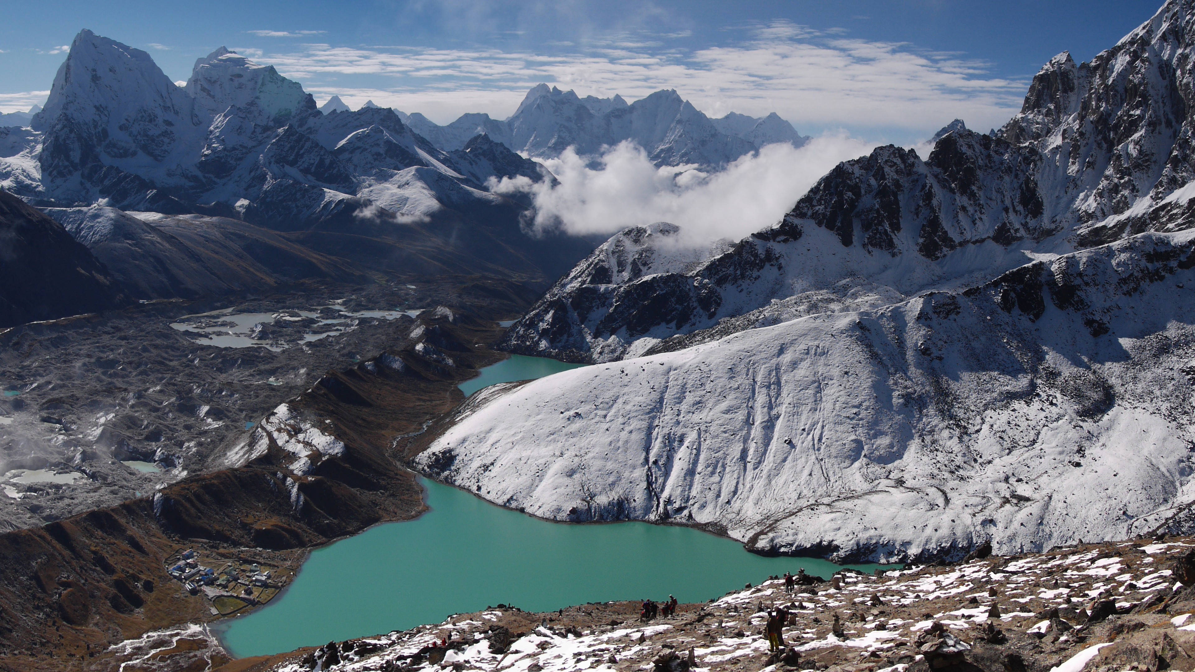 One of the World's highest fresh water Gokyo lake situated in Sagarmatha National Park, located at an altitude of 4,700–5,000 meter above sea level.